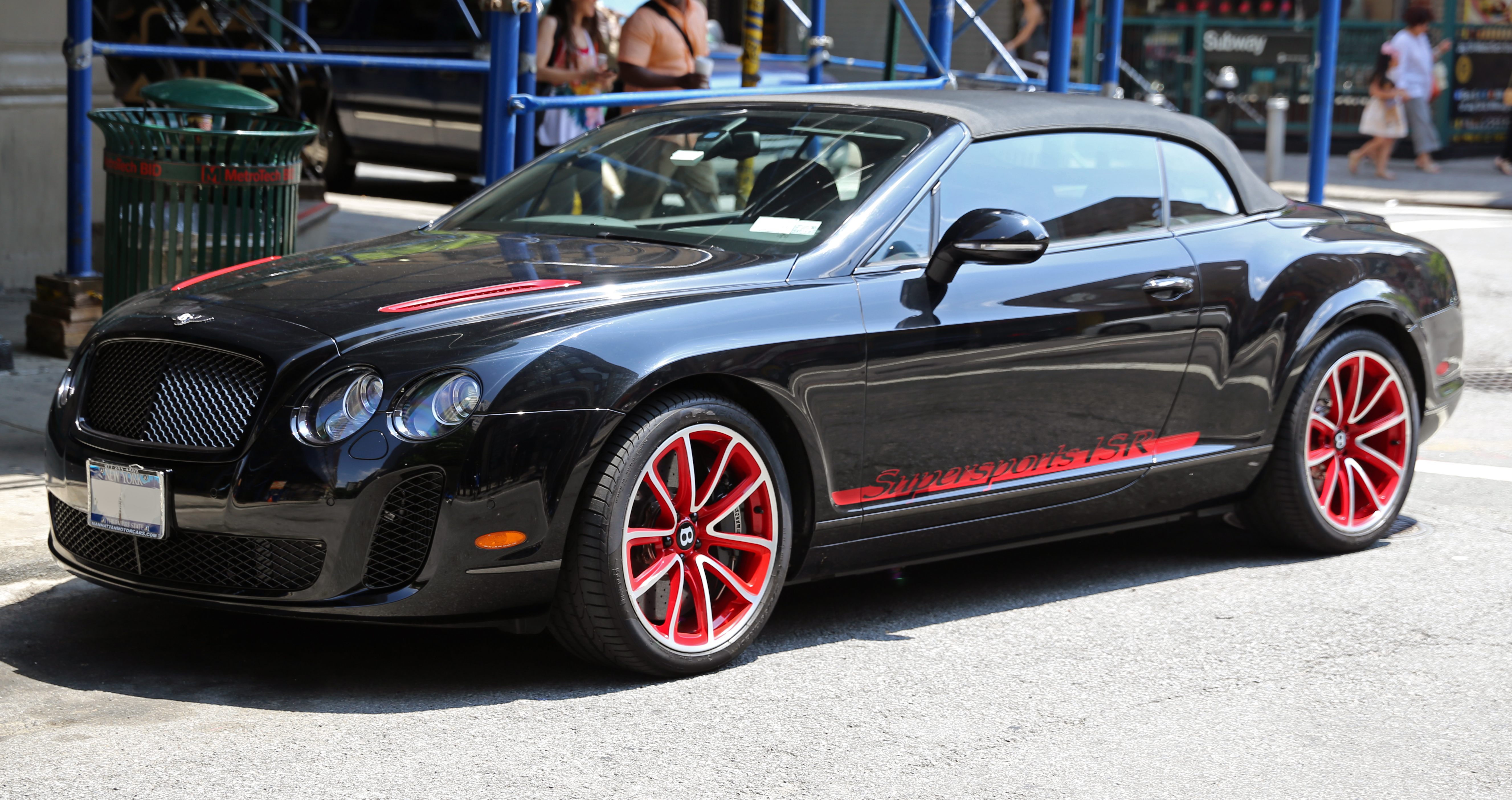 2012 Bentley Continental Supersports ISR (Ice Speed Record) convertible. This is one of 100 built of this special edition, here with wacky pinkish red trim everywhere.